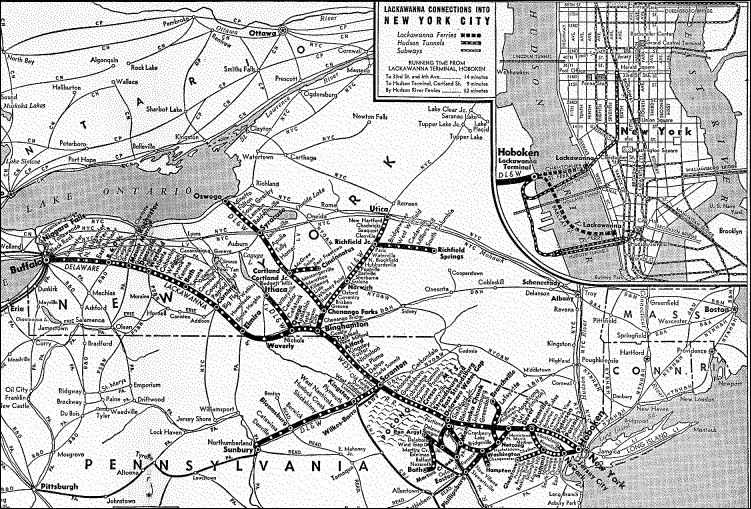 Map of the Delaware, Lackawanna and Western Railroad, detailing the connections to New York City.